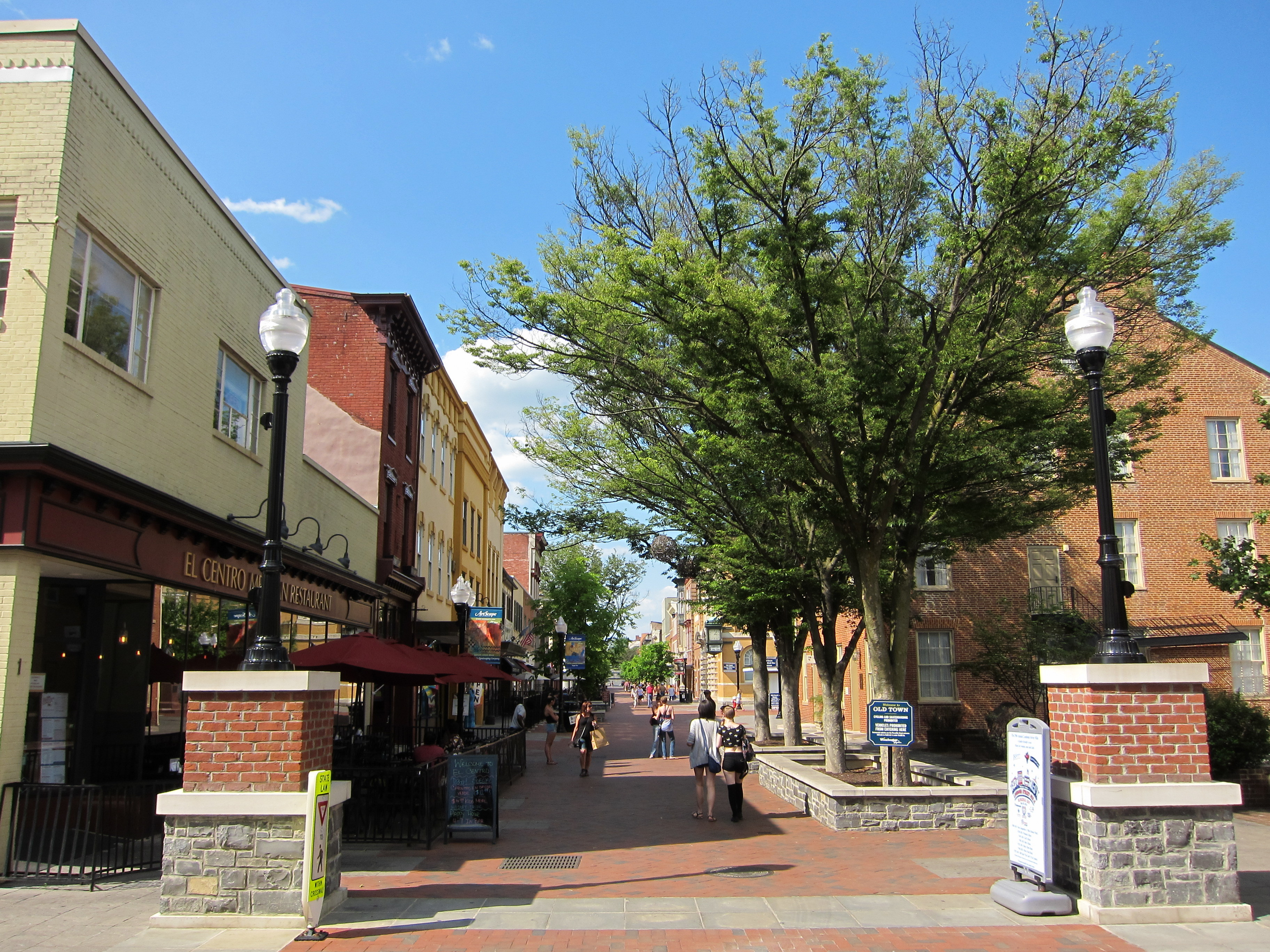 The Loudoun Street Mall in Winchester, Virginia, United States.